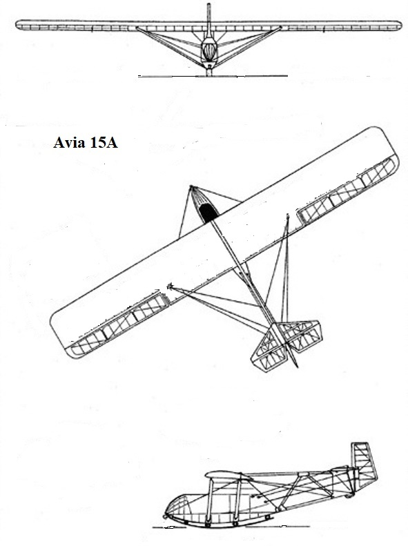 Drawing of the Glider AVIA 15А